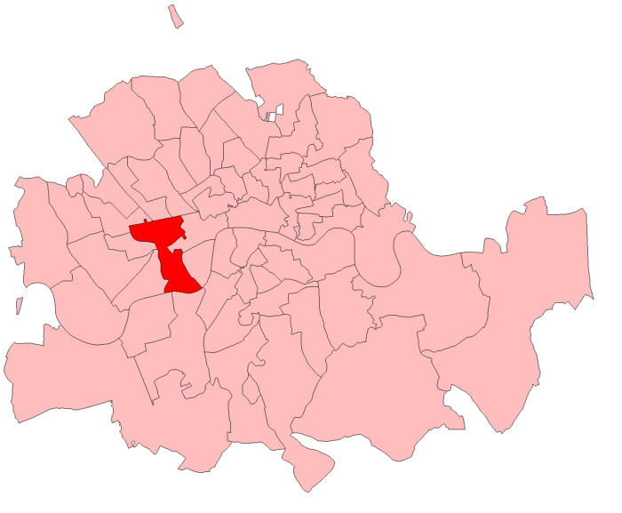 A map of St George, Hanover Square constituency within the Metropolitan Board of Works area, as it existed from 1885 to 1918.